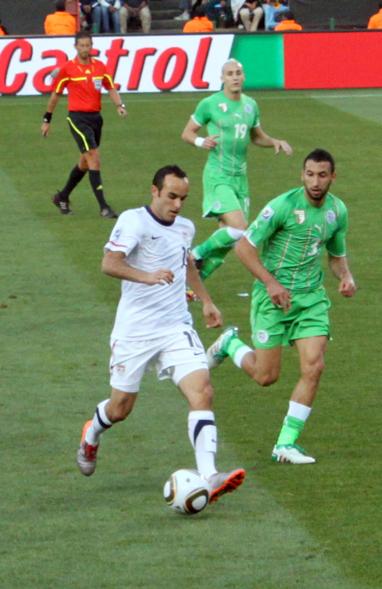 Landon Donovan, United States men's national soccer (association football) team forward, runs with the ball during the final Group Stage match of the 2010 FIFA World Cup against Algeria in Pretoria, South Africa on June 23, 2010. The United States won 1-0 to advance to the round of 16. Also shown are Algerian defender Nadir Belhadj and midfielder Hassan Yebda, and Belgium referee Frank De Bleeckere. Photo by Jason Wojciechowski/1GOAL.